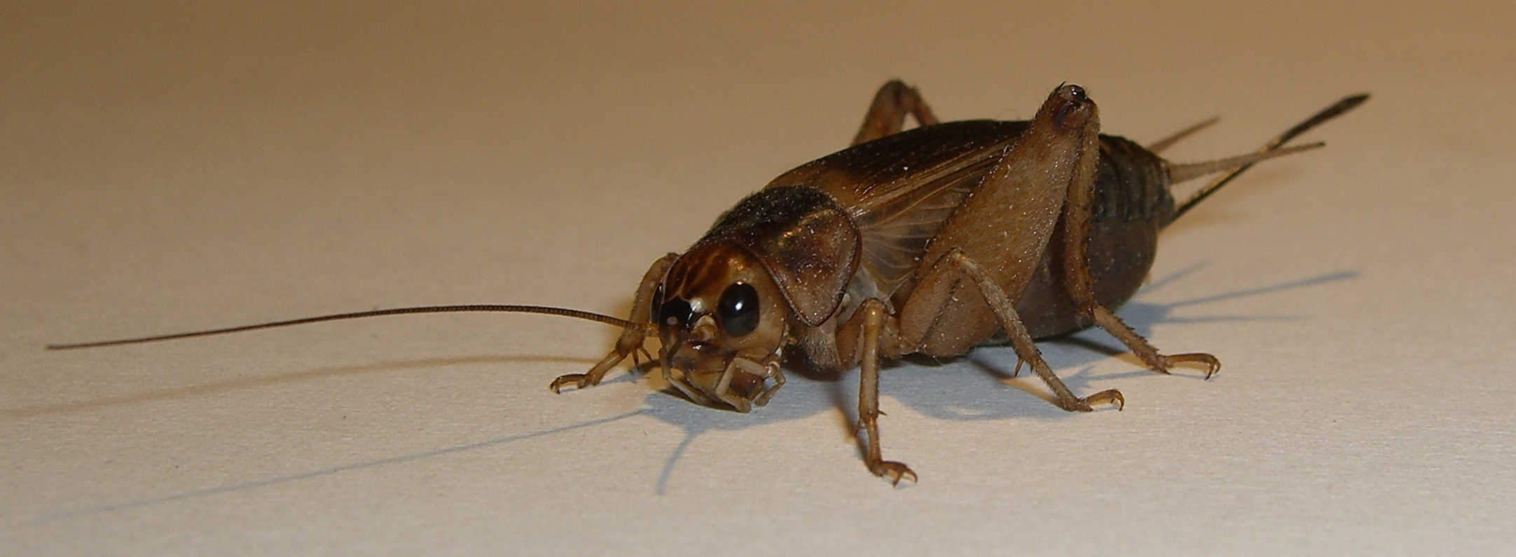 Description: Gryllus assimilis